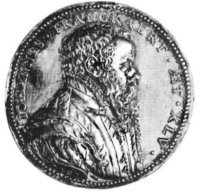 Silver medal (59 mm) of Hans Franckaert, attributed to Jacob Jonghelinck (recto) Inscription: IOHANNES.FRANCKAERT • AET • XLV •